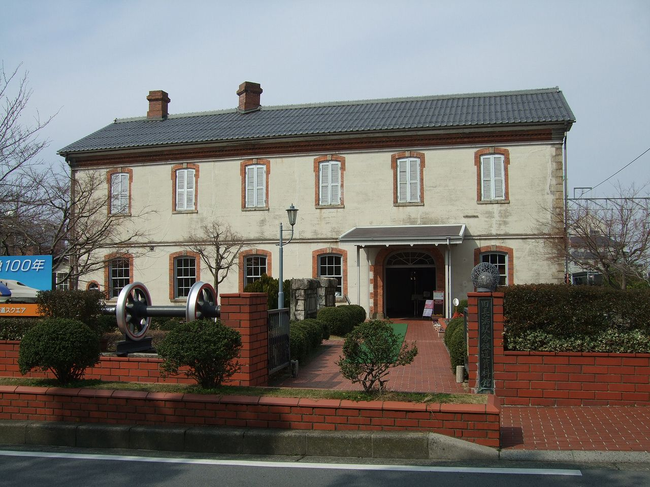 Former Nagahama Station, Nagahama City, Shiga, Japan.